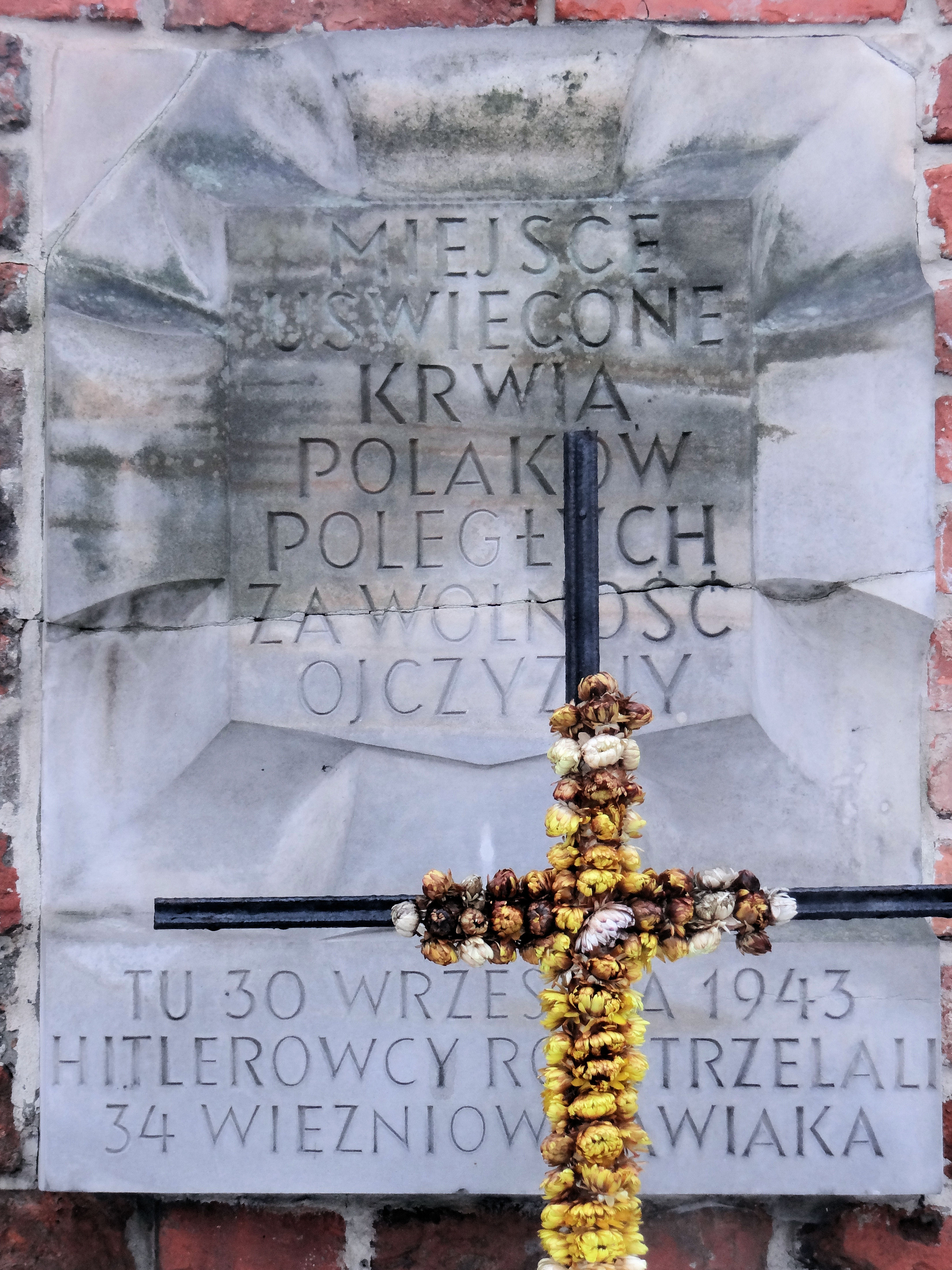 Place of National Memory at Solecki Market Square in Warsaw